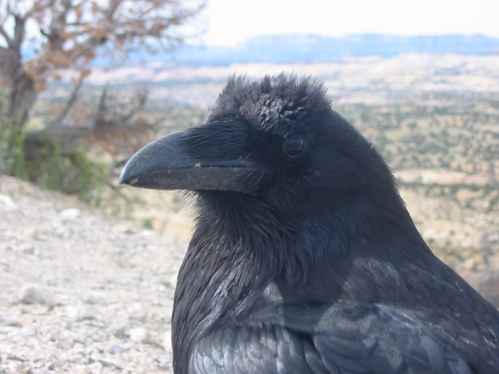 Corvus_corax_along_road _detail